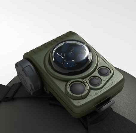 Distress Marker Military